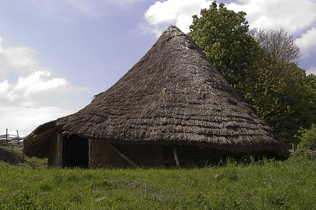 Celtic iron age roundhouse)